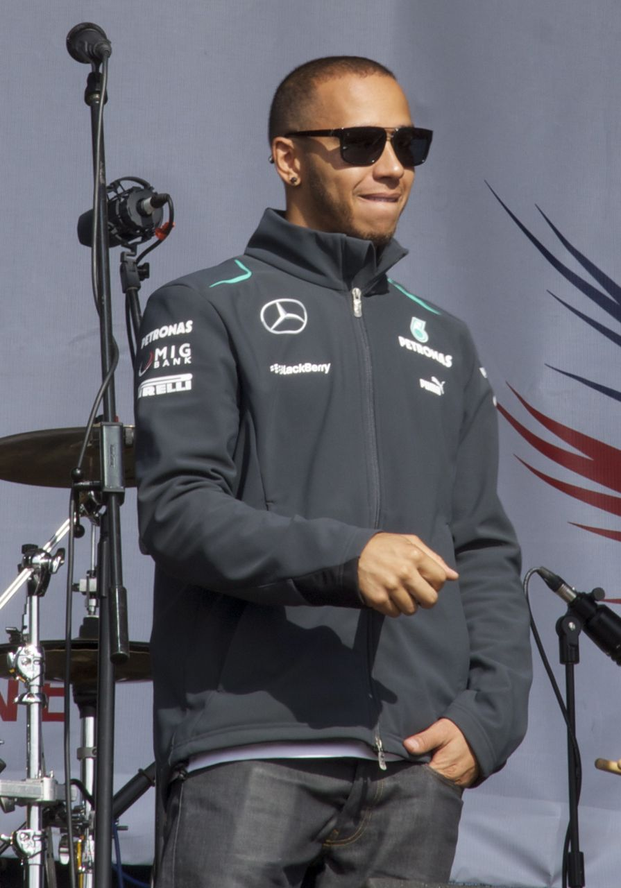 Lewis Hamilton (Mercedes) at the 2013 British Grand Prix.